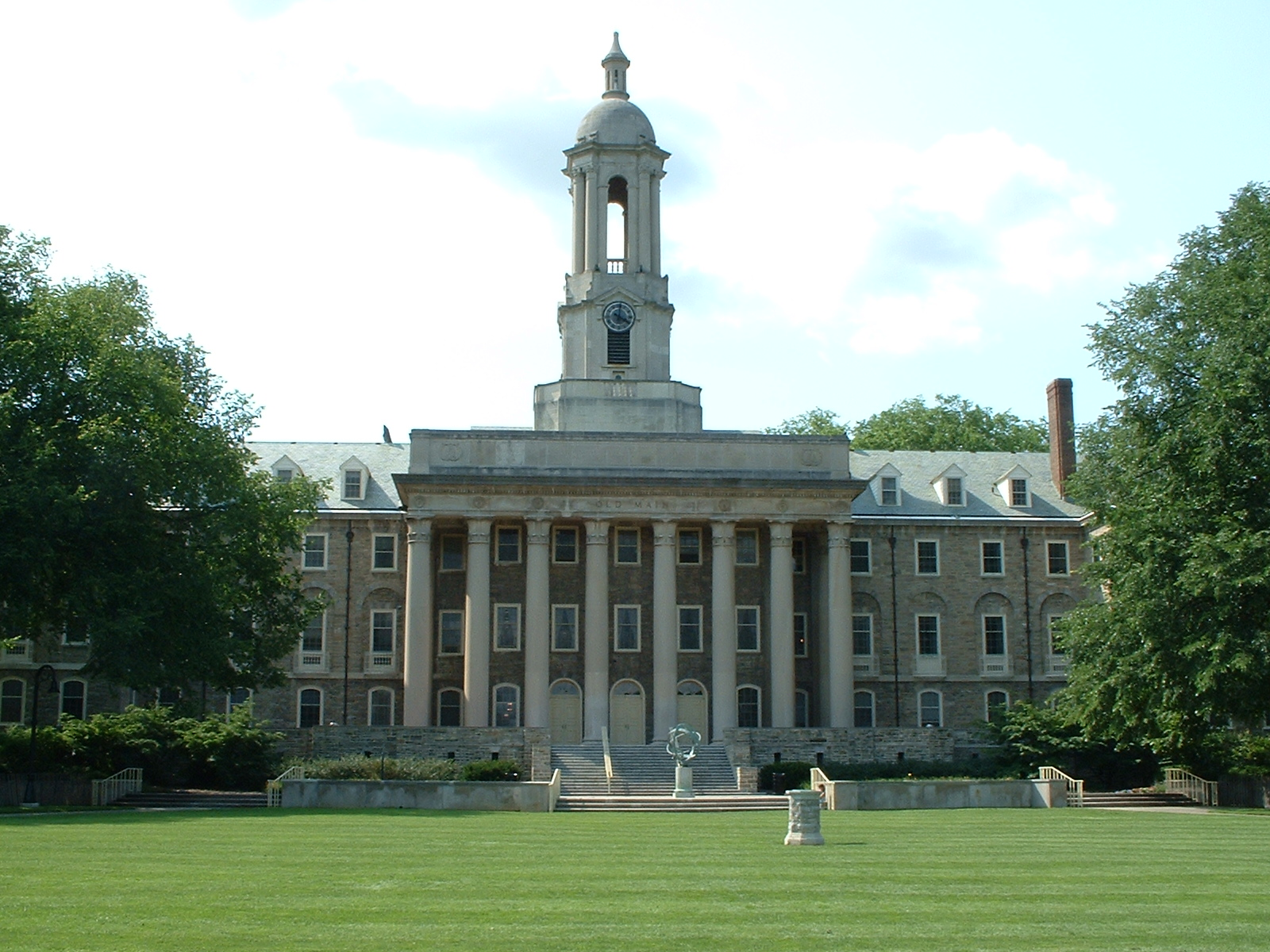 Main entrance of Old Main, at Penn State University, University Park, Pennsylvania.